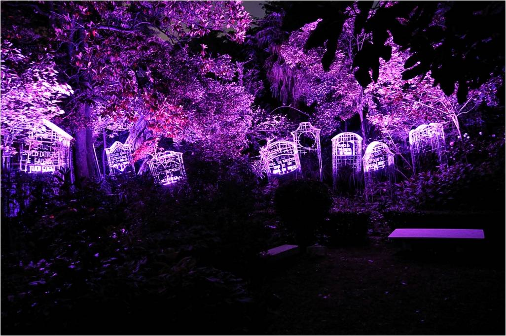 Memoria del Giardino. Juan Garaizabal. Venezia Sept.2013